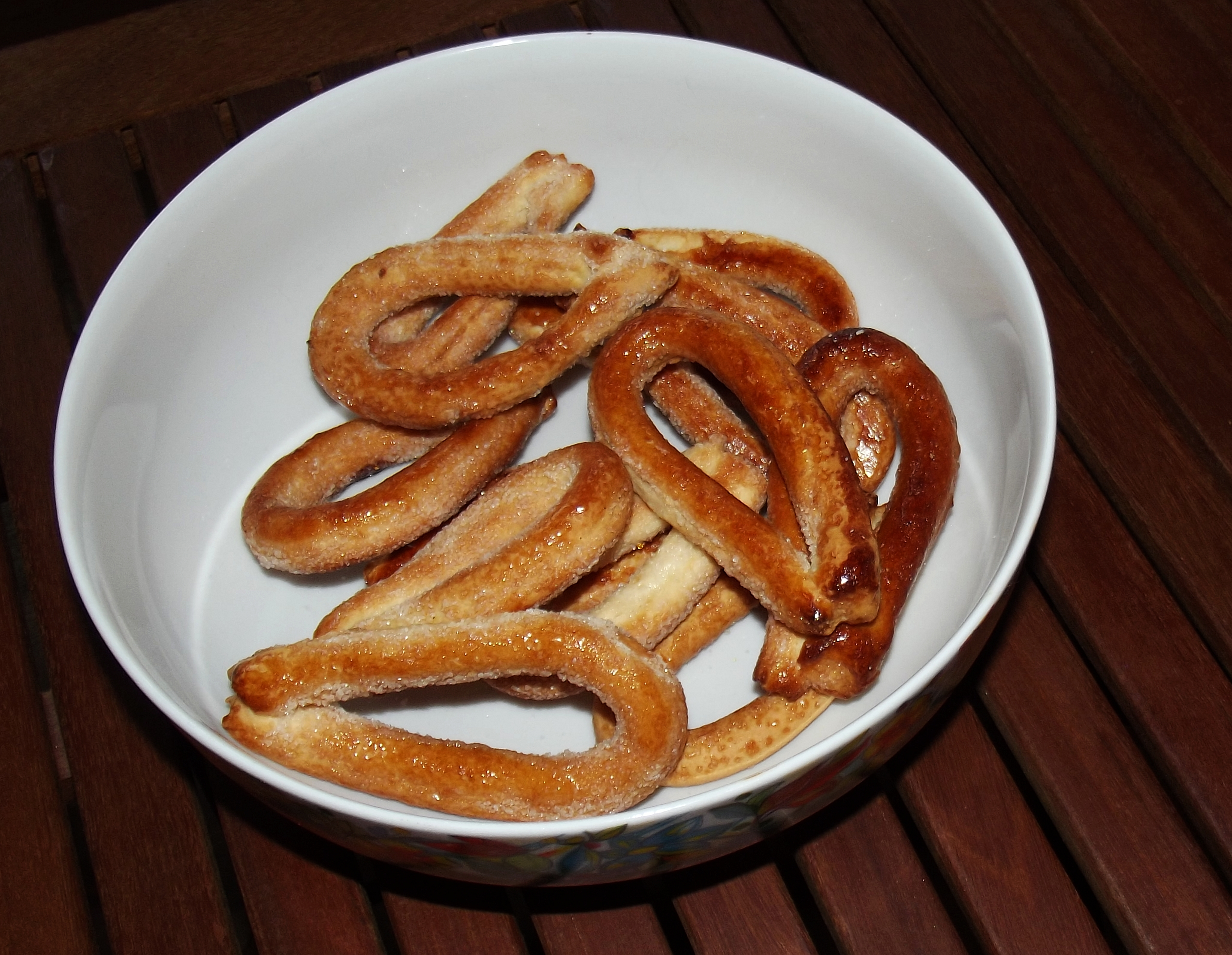 Torcetti di Lanzo (a traditional biquit from Piedmont - Italy)